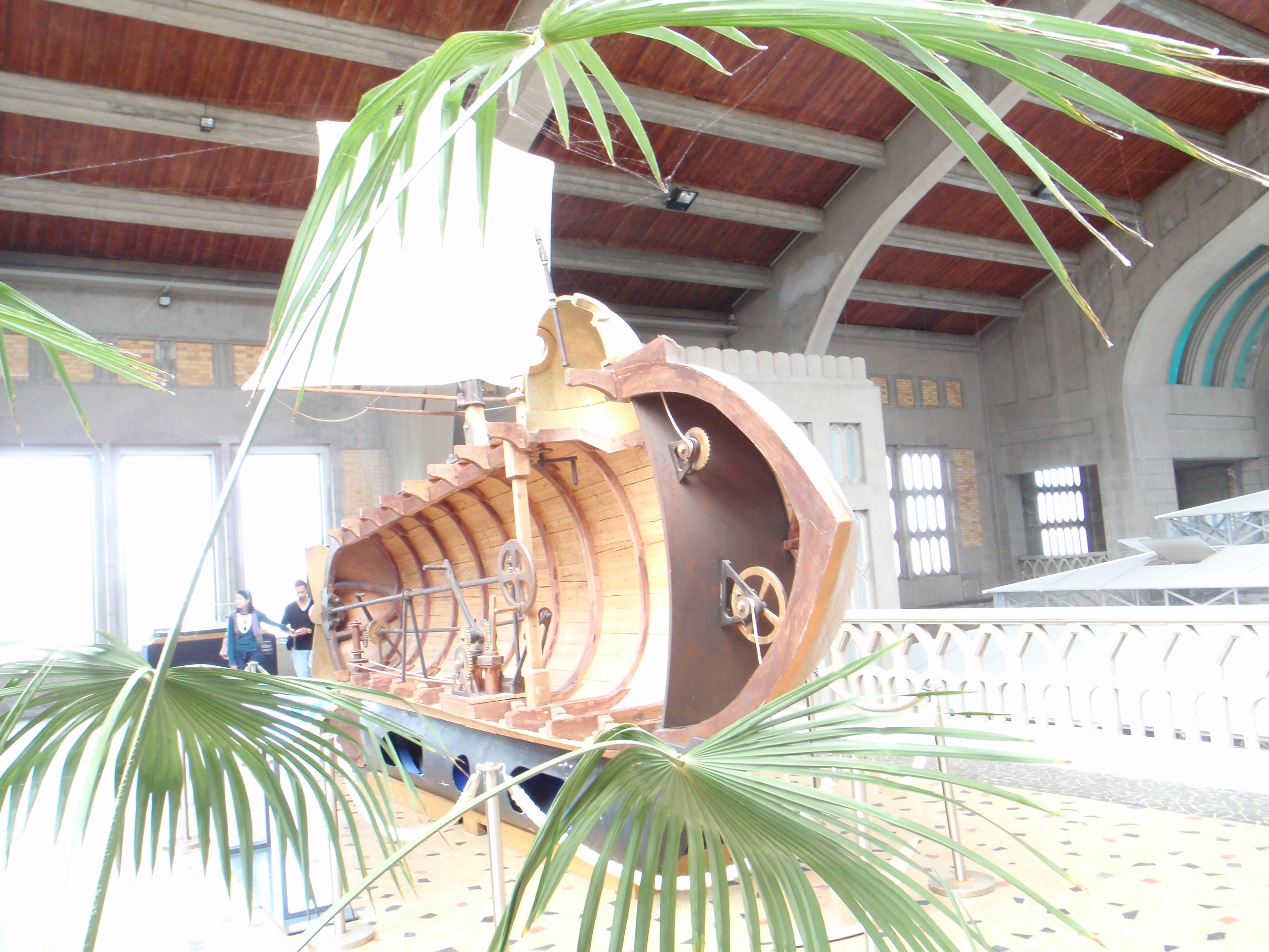 Cut-through fullsize model of Robert Fultons suggested submarin, from the maritime museum of Cherbourgh, Normandie, France. Offered for Napoleons navy 1799, at refusal, he offered it for HMS Royal Navy - also refused. Norsk (bokmål): Gjennomskåret modell av ubåten Robert Fulton tilbydde Napoleon i 1799, og deretter til den britiske marine, med avslag begge steder. Modellen er utstilt i Cherbourg, Normandie